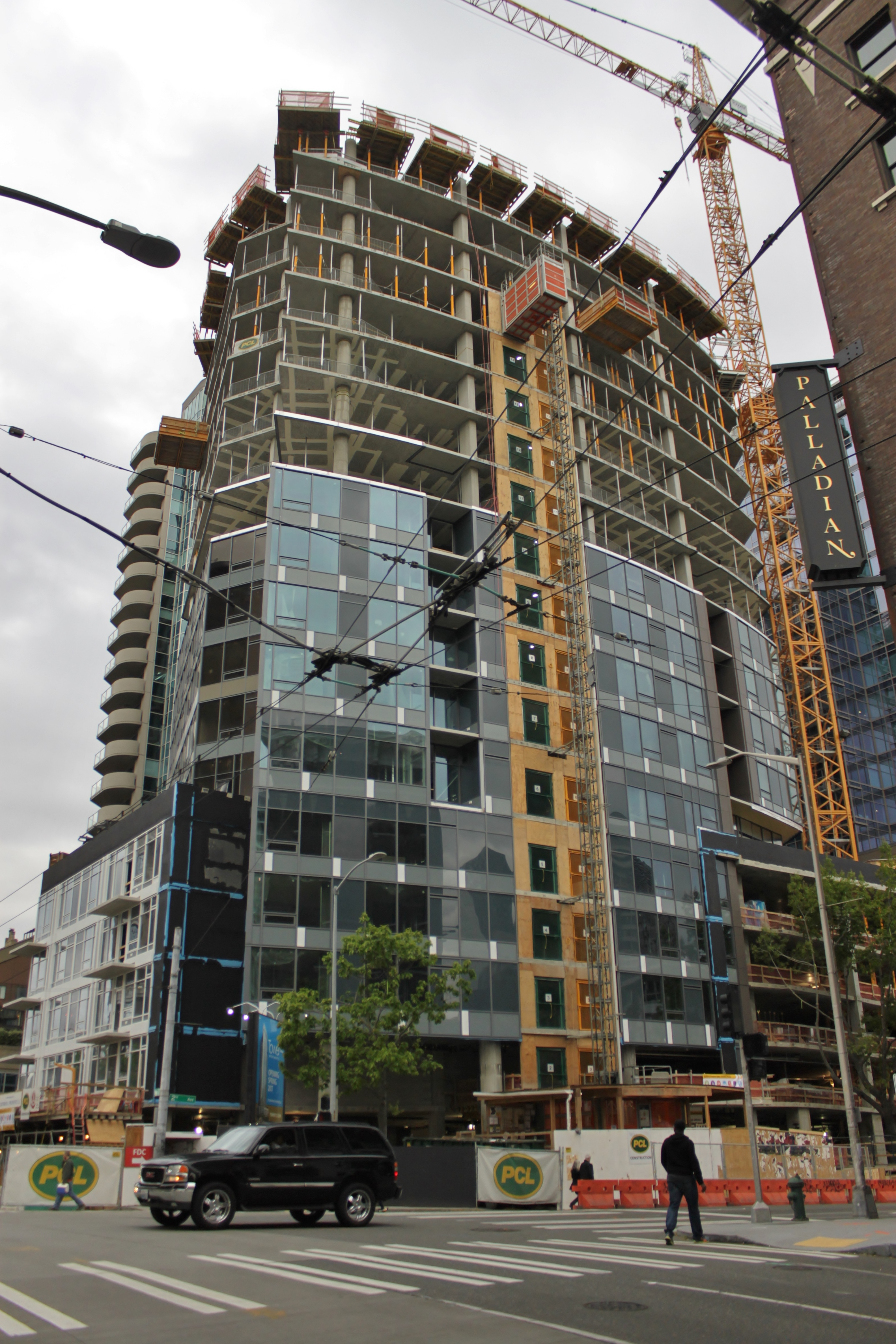 Tower 12, a planned high-rise apartment building in the Belltown neighborhood of Seattle, Washington, seen about halfway through construction in April 2016.